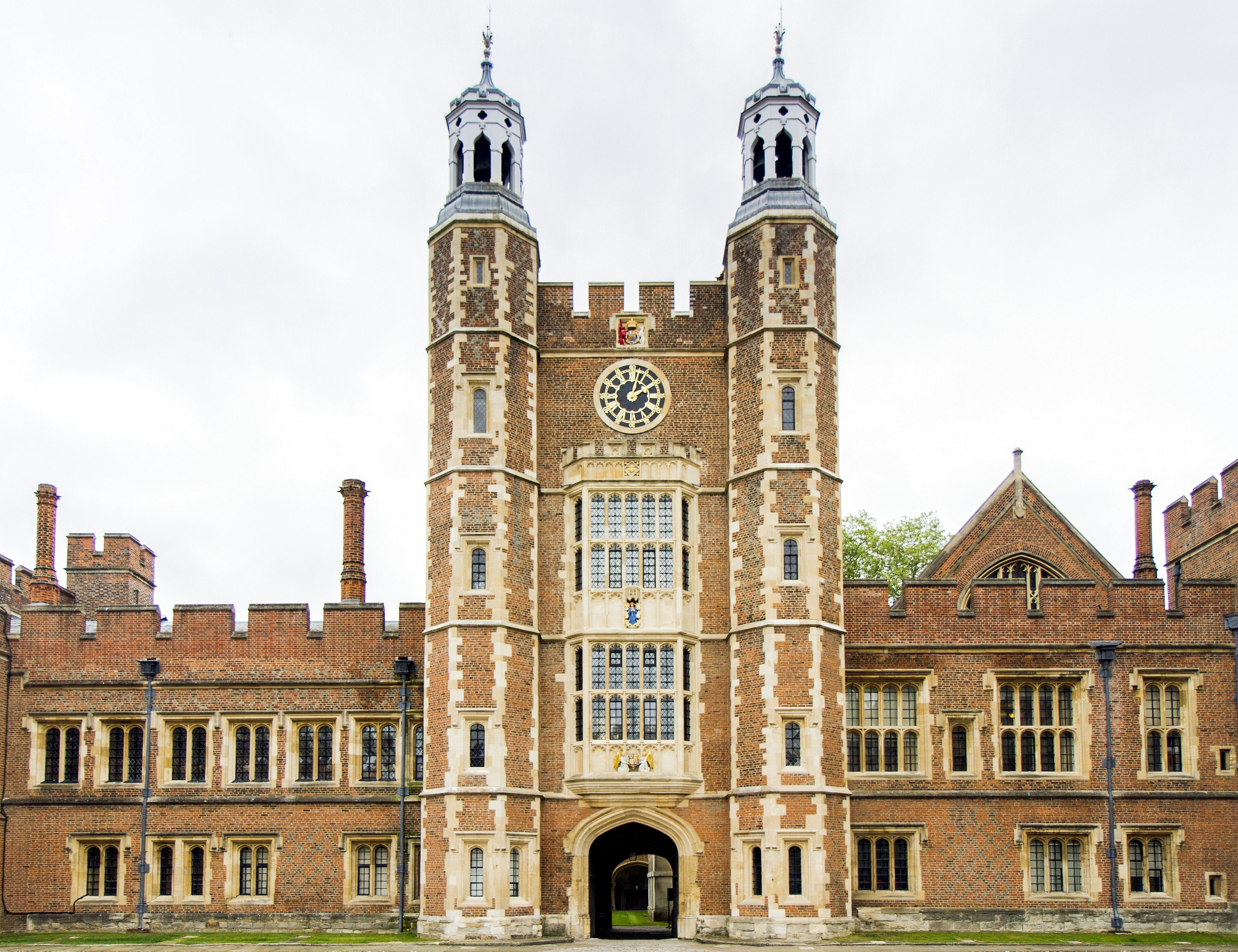 Eton College, front view